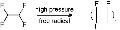 Free radical polymerization of tetrafluoroethylene to give polytetrafluoroethylene